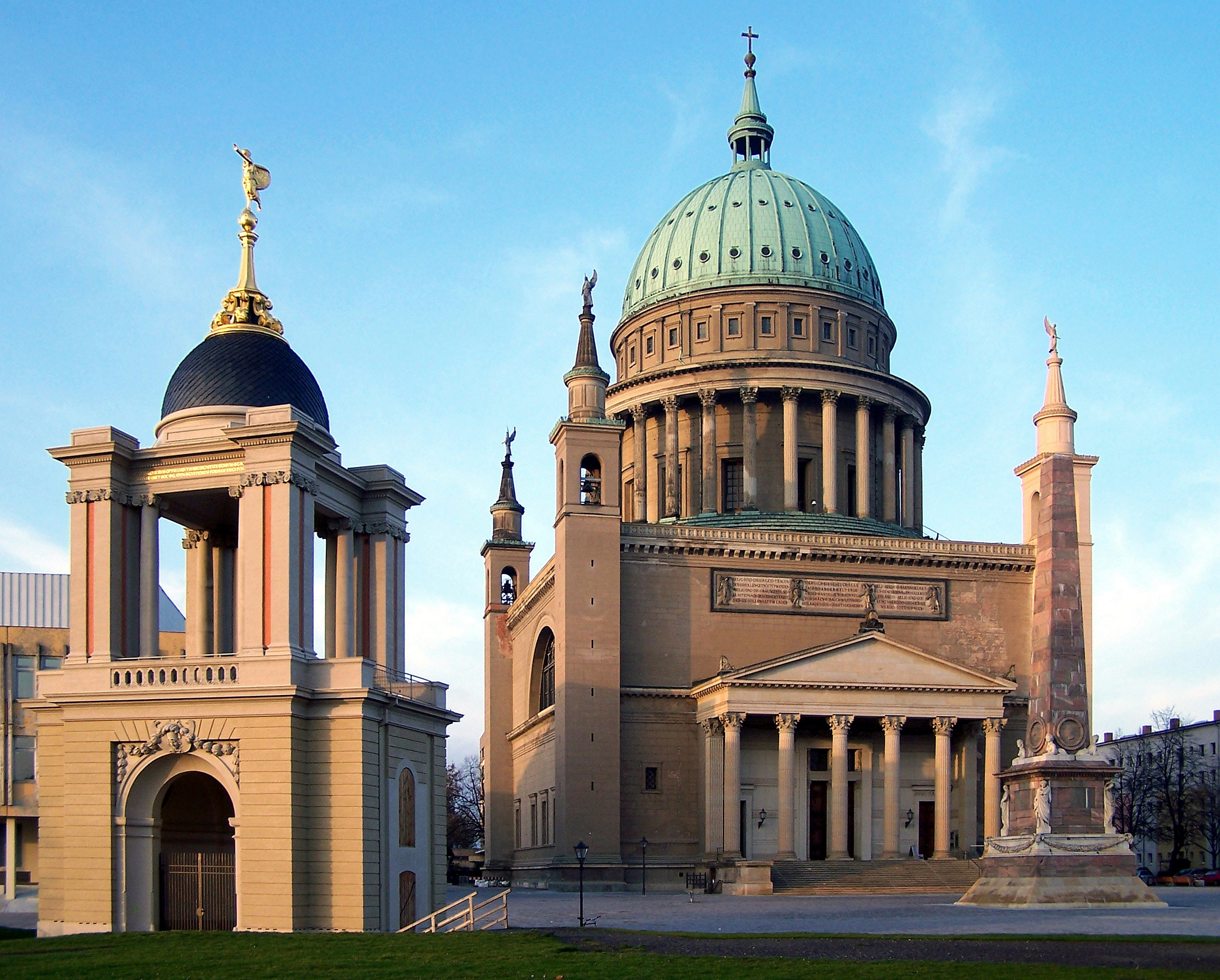 St. Nikolas’ Church in Potsdam (Germany) with Fortunaportal in left foreground